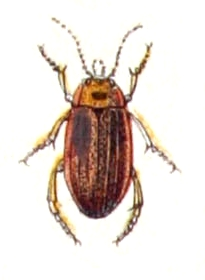 Rhantus frontalis male, from Calwer's Käferbuch, Table 8, Picture 5. Taxonomy was updated to 2008, using mostly the sites Fauna Europaea and BioLib. Please contact Sarefo if the determination is wrong!